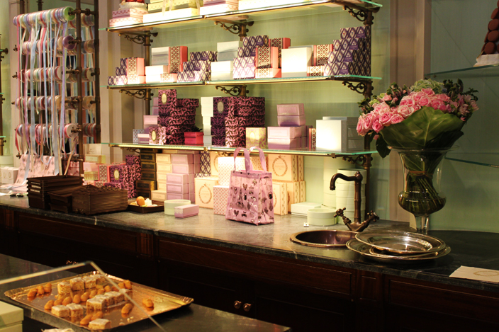 Ladurée, New York City